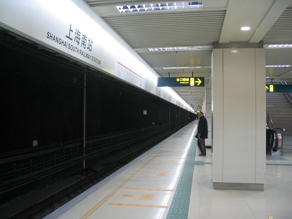 上海南站-1號線月台 Line 1 Platform of Shanghai South Railway Station